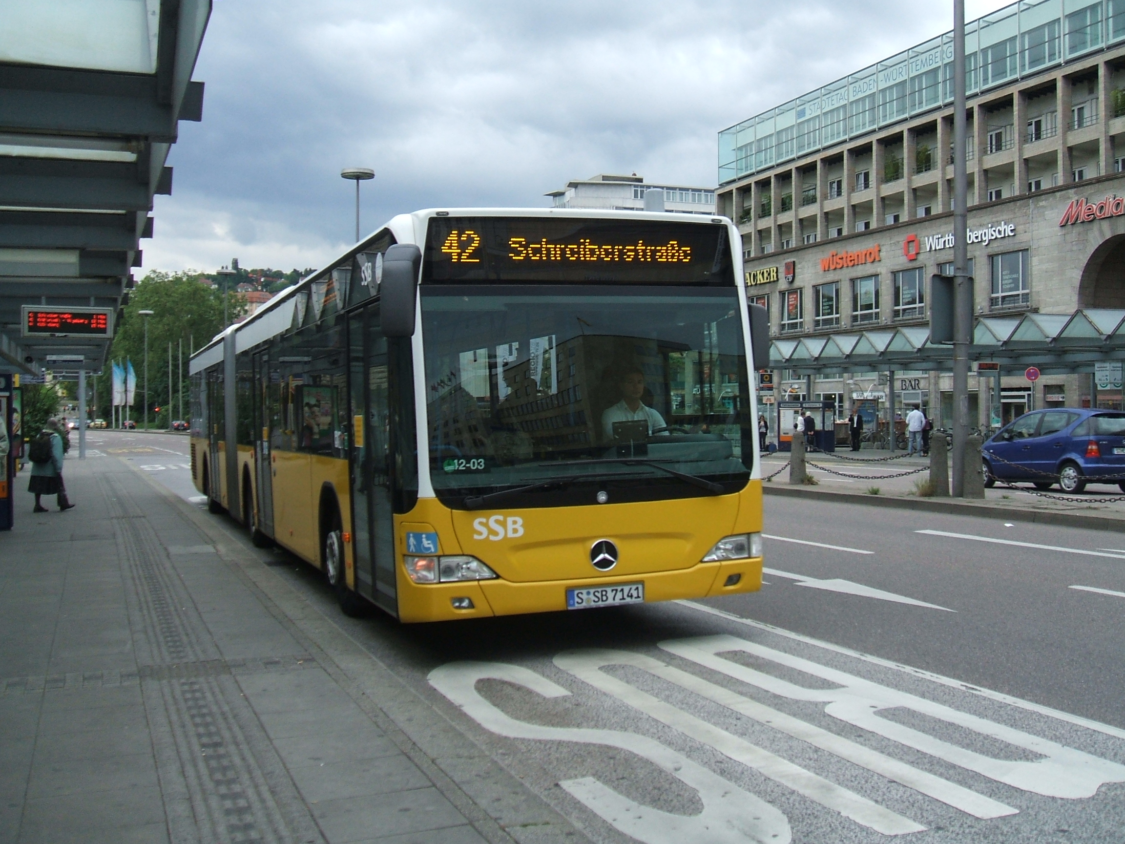 articulated bus "Mercedes-Benz Citaro" of the Stuttgarter Straßenbahnen AG in Stuttgart